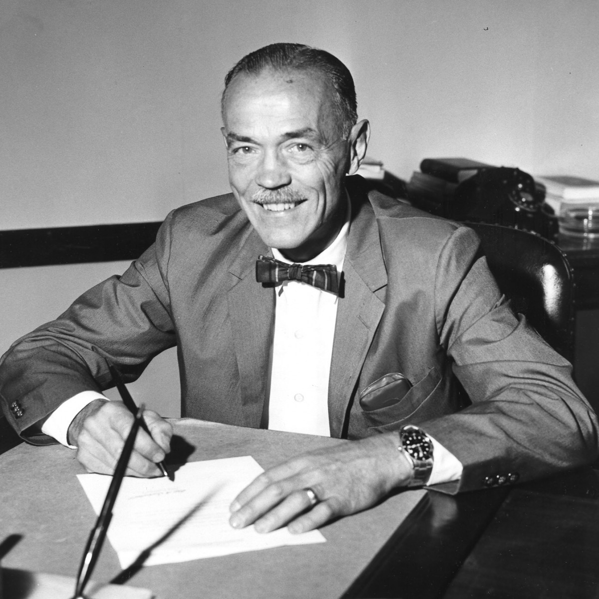 Official portrait of United States Ambassador to the Democratic Republic of the Congo, Clare H. Timberlake.